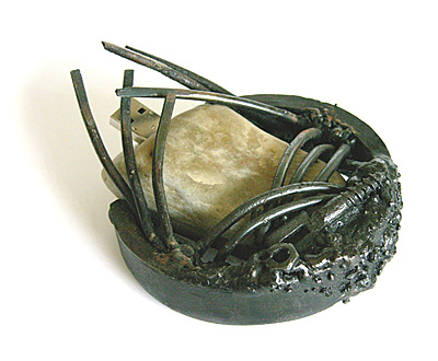 Roland Ferenc Lieb: Laszlo Szlavics Sr. — In Memoriam.